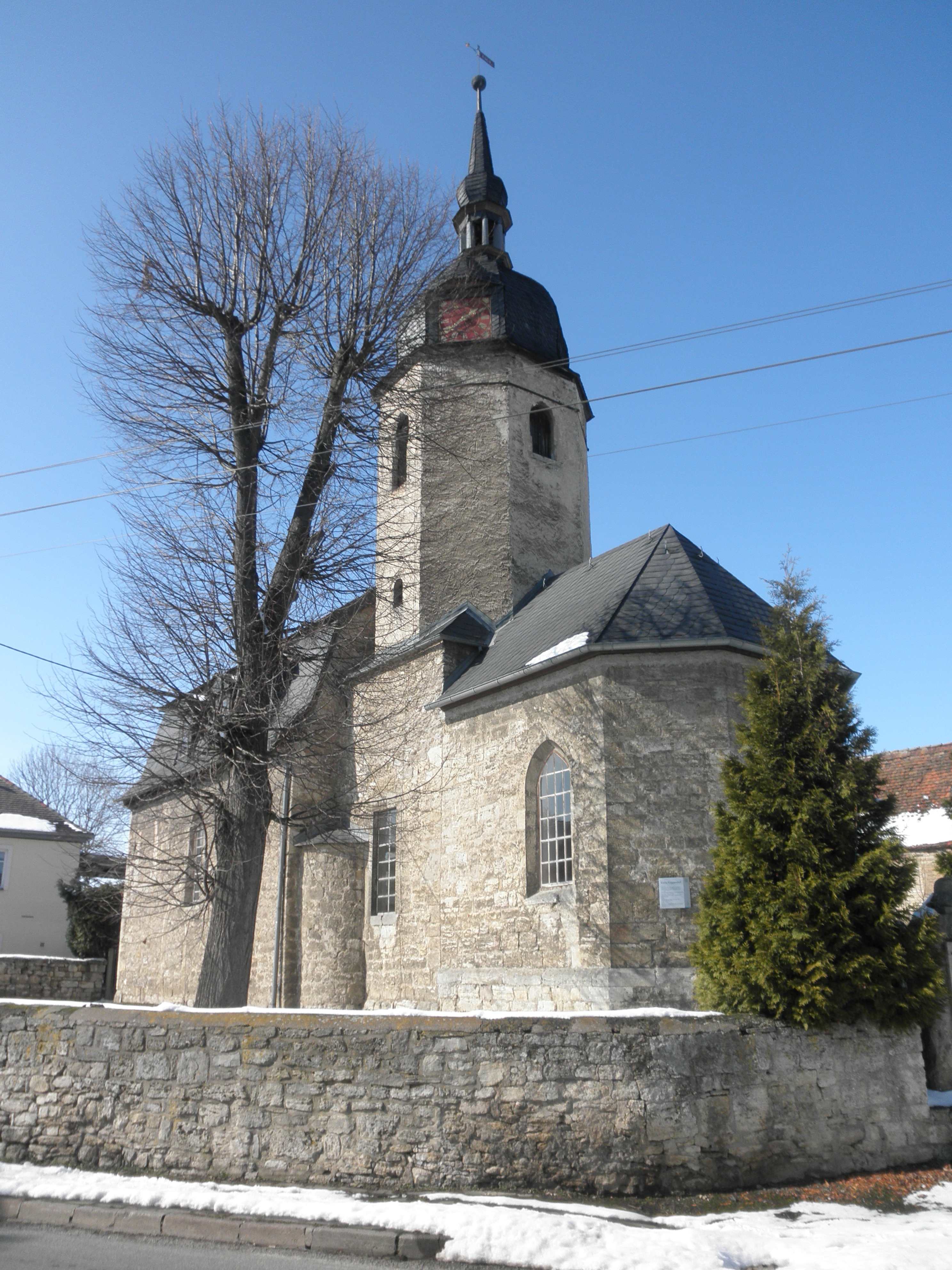 Church in Krippendorf (Jena) in Thuringia